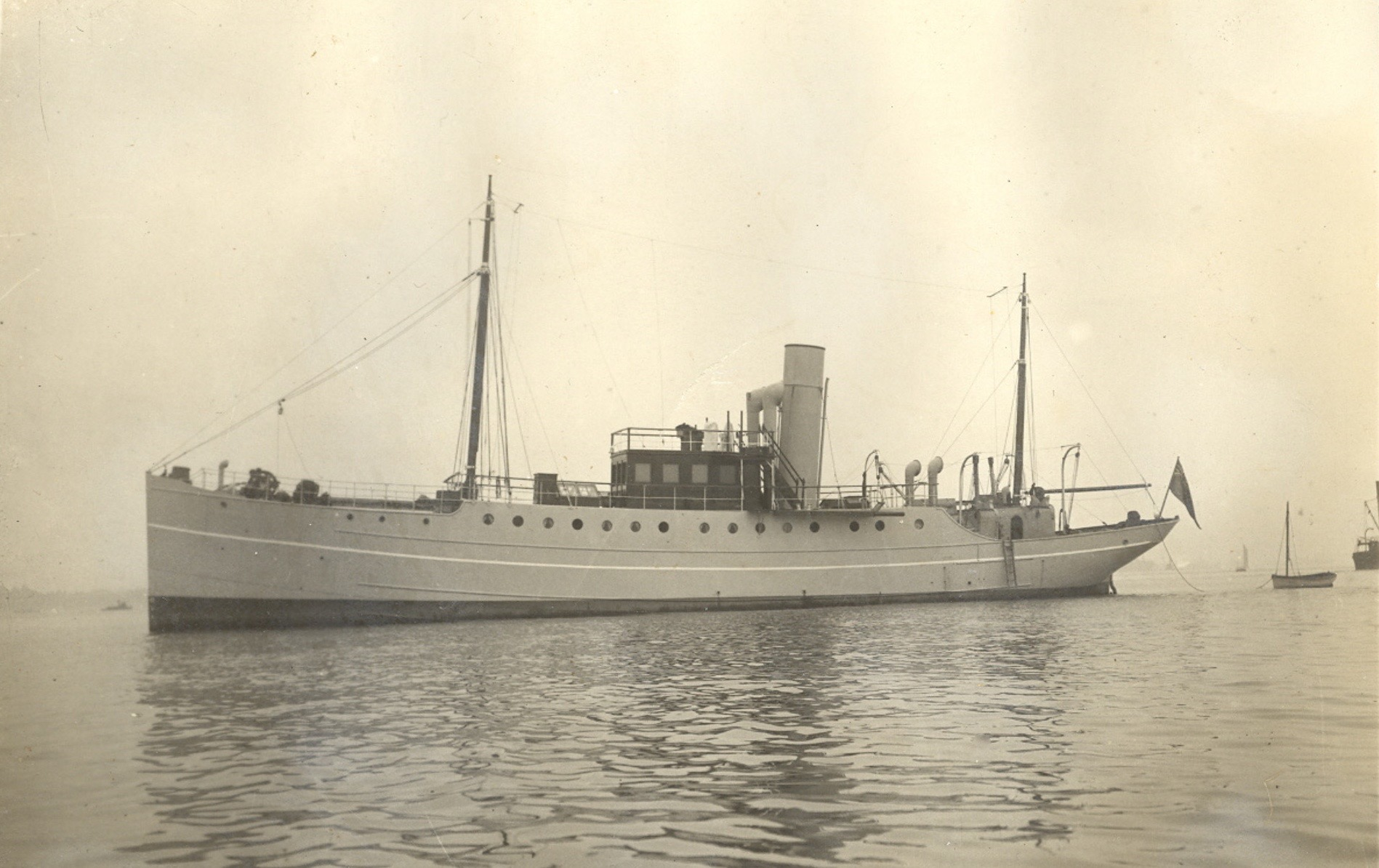 Ocean Rover